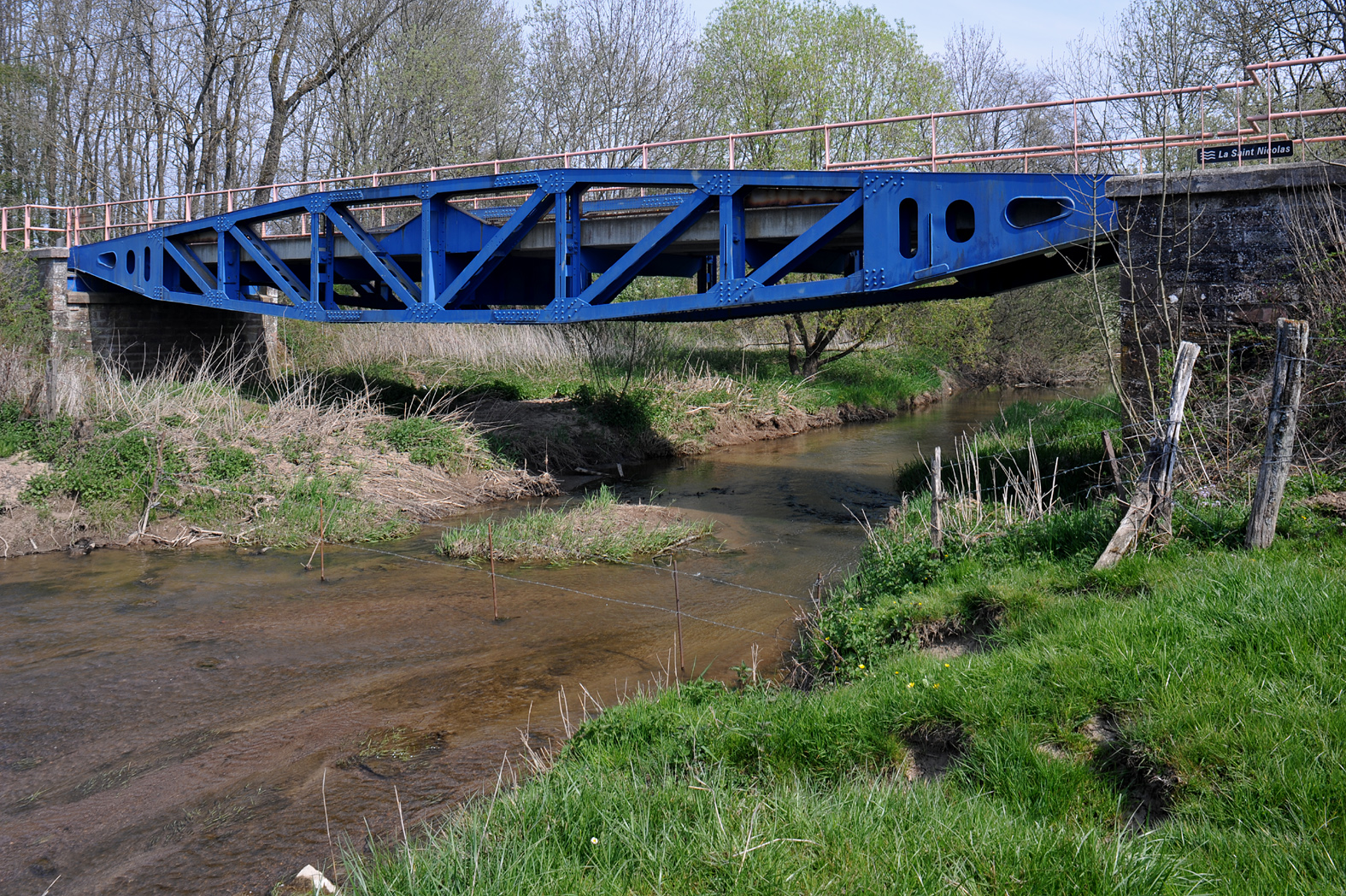 Bridge of a „whale pier“ element over the Saint Nicolas near Foussemagne; Territoire de Belfort, France. After the war the bridge was placed in Bourogne over the Bourbeuse and moved to the actual location in 1952; renovated in 1997.